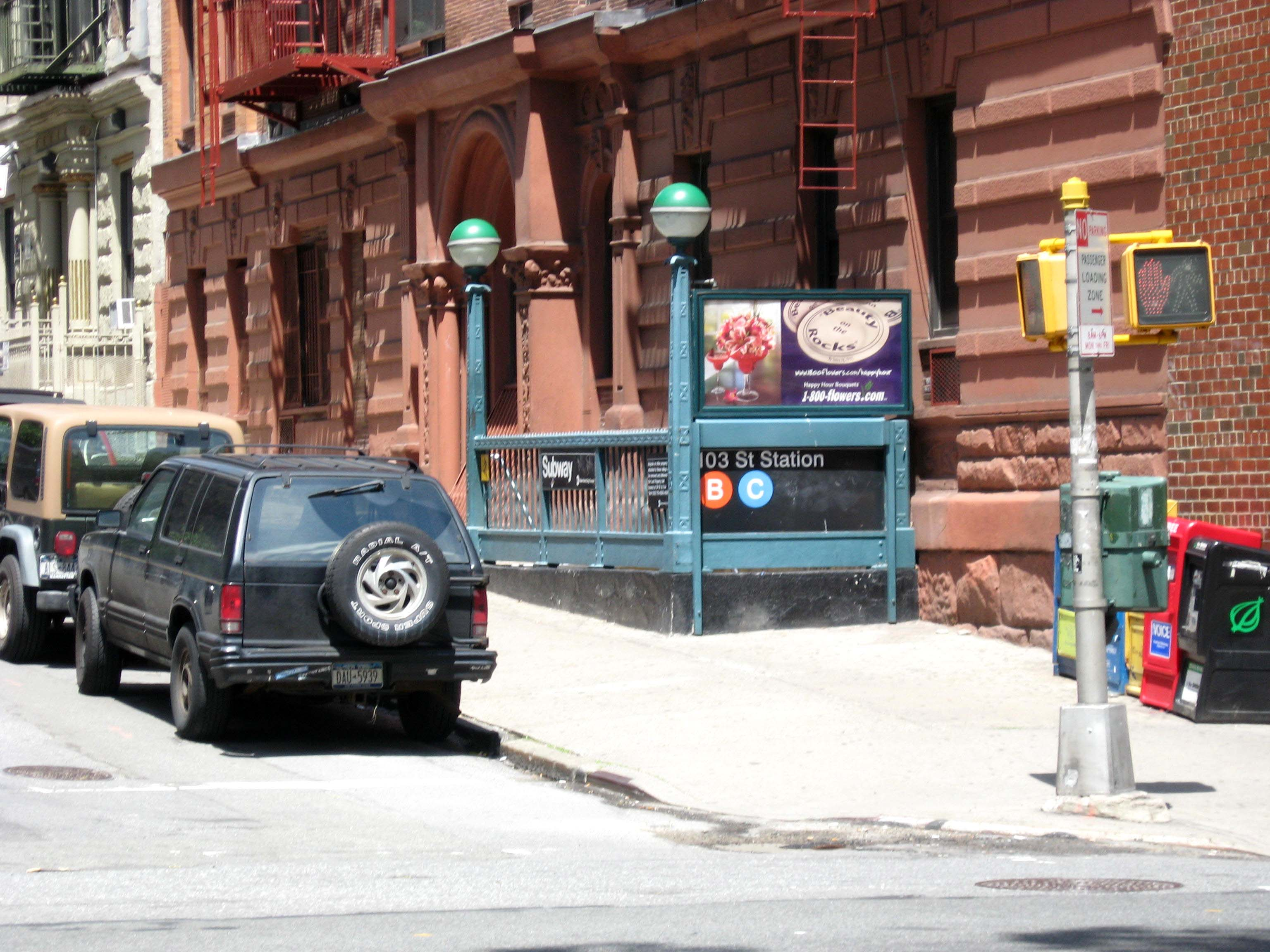 Looking northwest across CPW at en:103rd Street (IND Eighth Avenue Line) on a sunny morning.